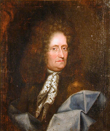 Otto Krabbe ((1644-1719), Danish landowner